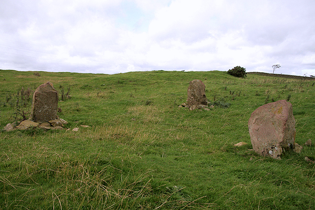 Park of Tongland Standing Stones. These three small stones are in a grazing field to the west of Park of Tongland Farm. A directional sign to the stones is by the road at the farm.